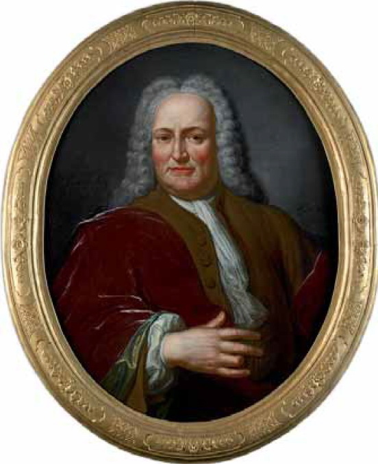 Samuel Luchtmans (senior) 1685 – 1757